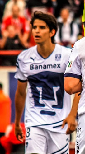 UNAM player Carlos Orrantía